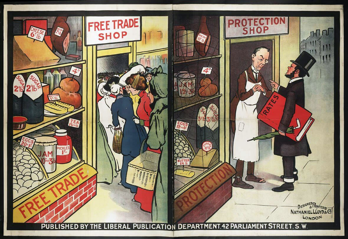 Liberal Party poster clearly displaying the differences between an economy based on Free Trade and Protectionism. The Free Trade shop is full to the brim of customers due to its low prices whilst the shop based upon Protectionism has suffered from high prices and a lack of custom. Artist: Unknown Printer: Nathaniel Lloyd and Company Publisher: Printer Place of Production: London Date: c1905-c1910 Persistent URL: misc 0519/19')